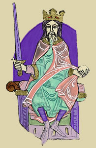 David I of Scotland detail of an illuminated initial on the Kelso Abbey charter of 1159